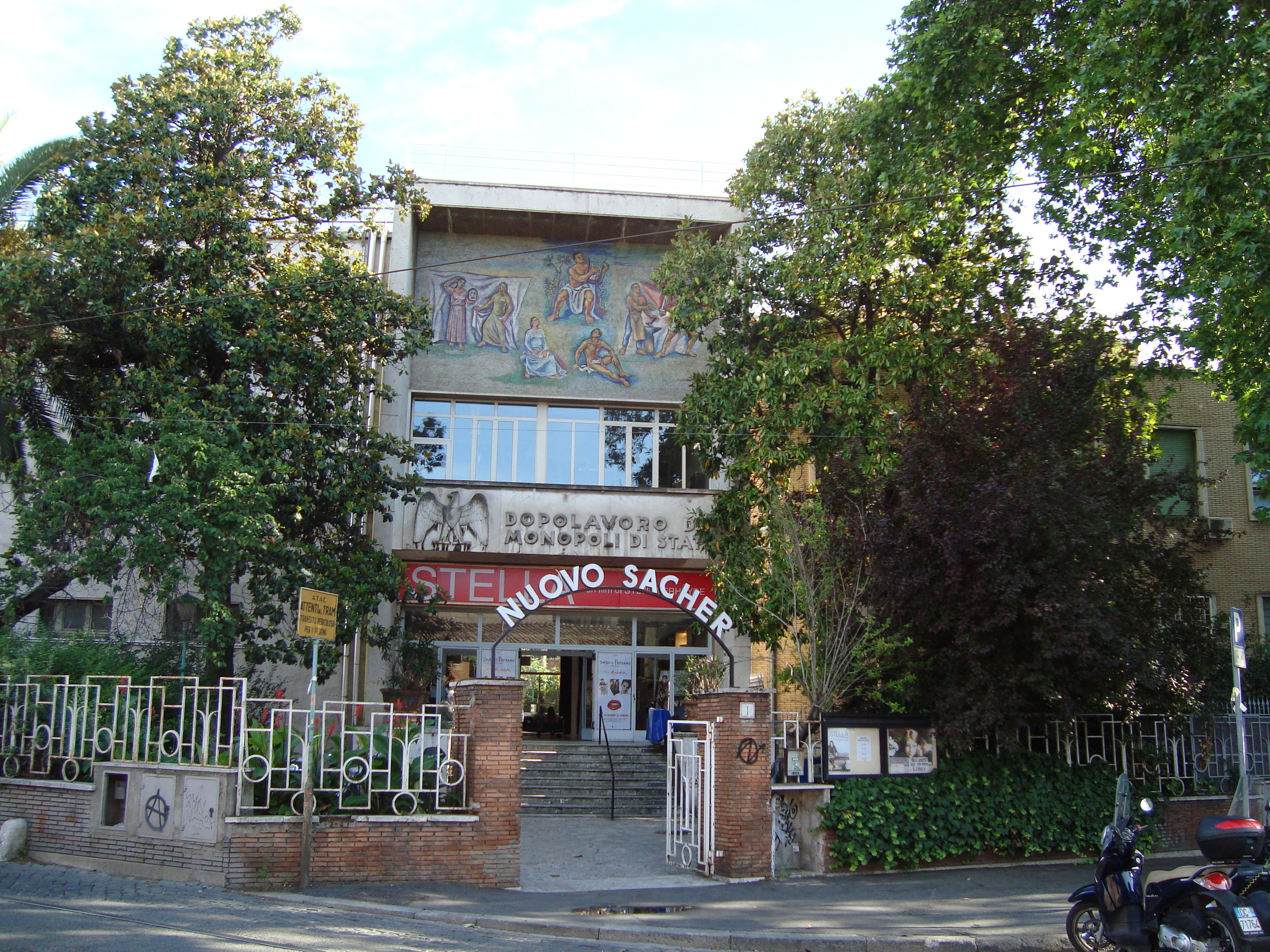 Nanni Moretti's Nuovo Sacher Cinema in Trastevere in Rome